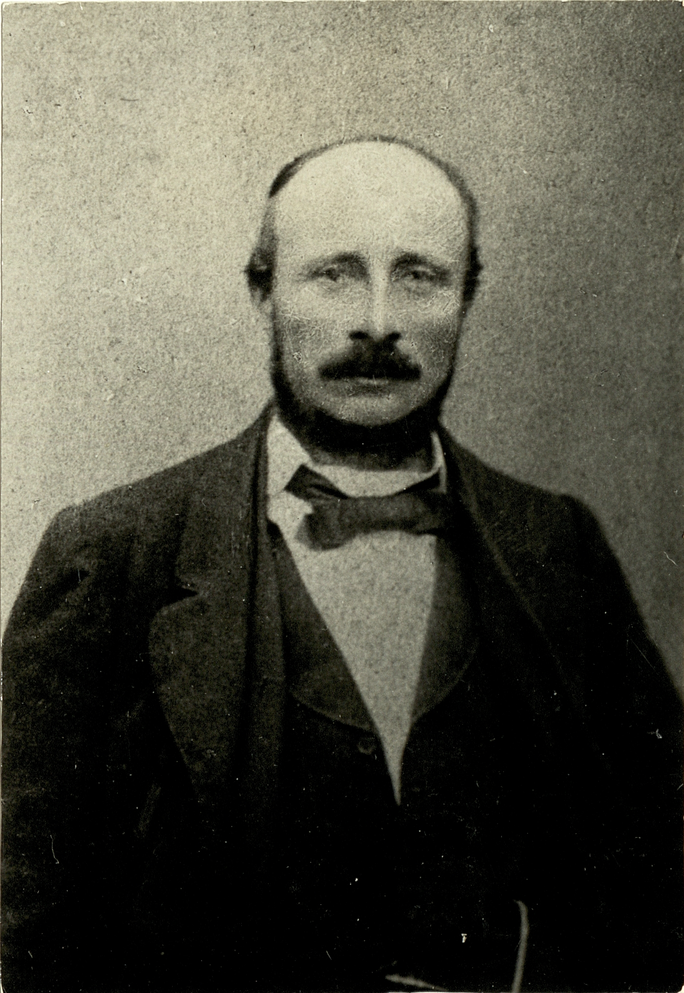 Anton Černe (1813-1891), slovene politician.